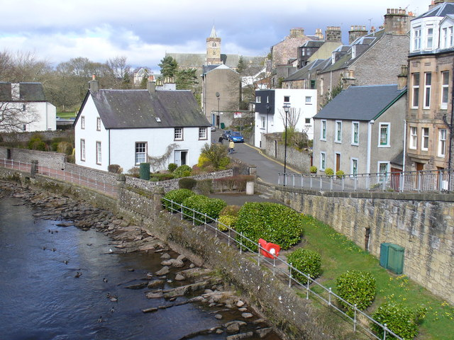 Dunblane from the Bridge Allan Water with vernacular stone buildings at the back of the High Street. In the distance is the Dunblane Cathedral.